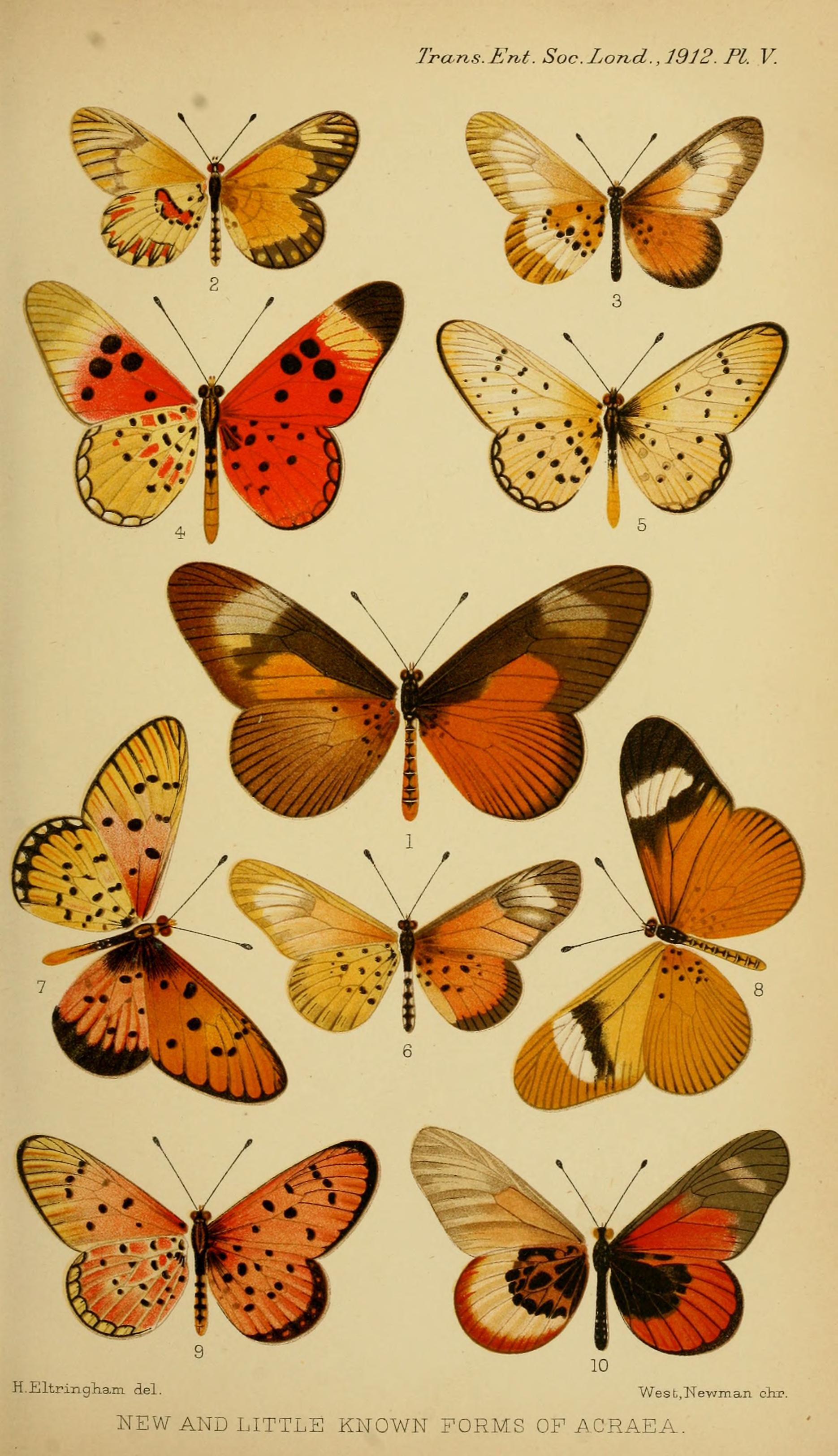 Eltringham, H, 1912, A Monograph of the African species of the Genus Acraea, Fab., with a supplement on those of the Oriental Region.Transactions of the Royal Entomological Society of London Volume 60, Issue 1, pages 1-369 Plate 5 text 1 Acraea jodutta f. castanea Eltringham, 1912 2 Acraea terpsichore rangatana Eltringham, 1912 synoym for Acraea rangatana Eltringham, 1912 3 Acraea penelope f. penella Eltringham, 1912 4 Acraea acrita bellona Weymer, 1908 synonym for Acraea bellona Weymer, 1908 5 Acraea equatorialis anaemia Eltringham, 1912 6 Acraea aubyni Eltringham, 1912 7 Acraea periphanes f. umida synonym for Acraea periphanes Oberthür, 1893 8 Acraea jodutta f. inaureata Eltringham, 1912 synonym for Acraea esebria Hewitson, 1861 9 Acraea nohara punctellata Eltringham, 1912 synonym for Acraea punctellata 10 Acraea baxteri Sharpe, 1902